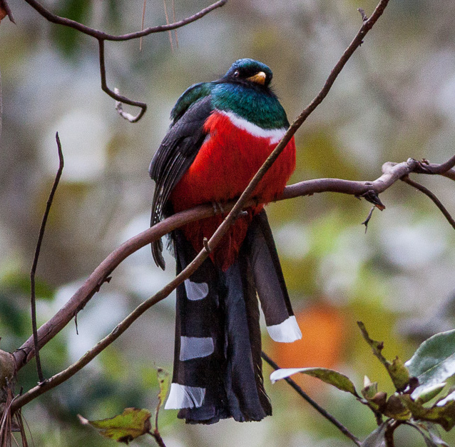 Mountain Trogon (Trogon mexicanus) on Durango Highway in Sinaloa, México